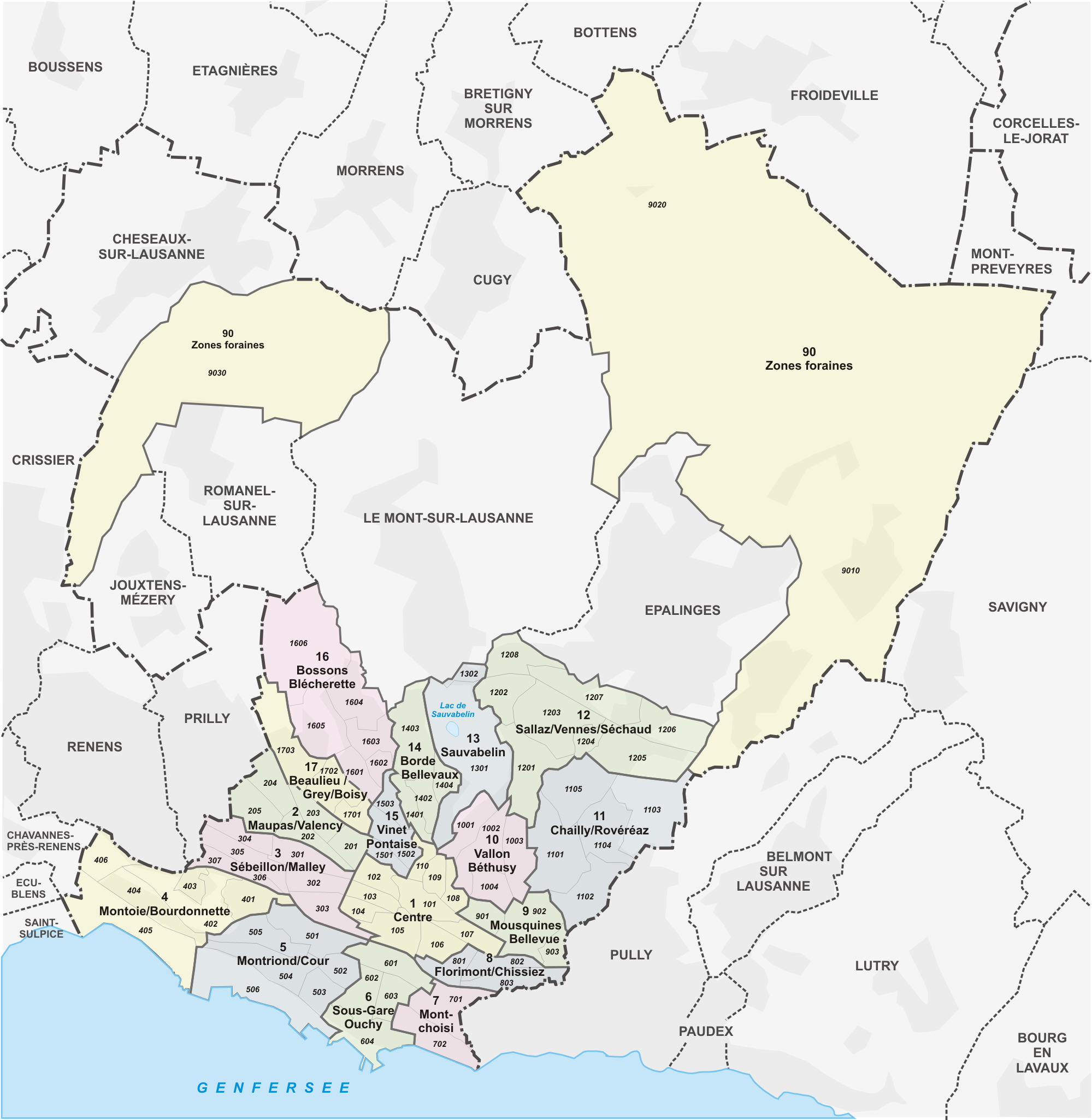 Quarters of Lausanne